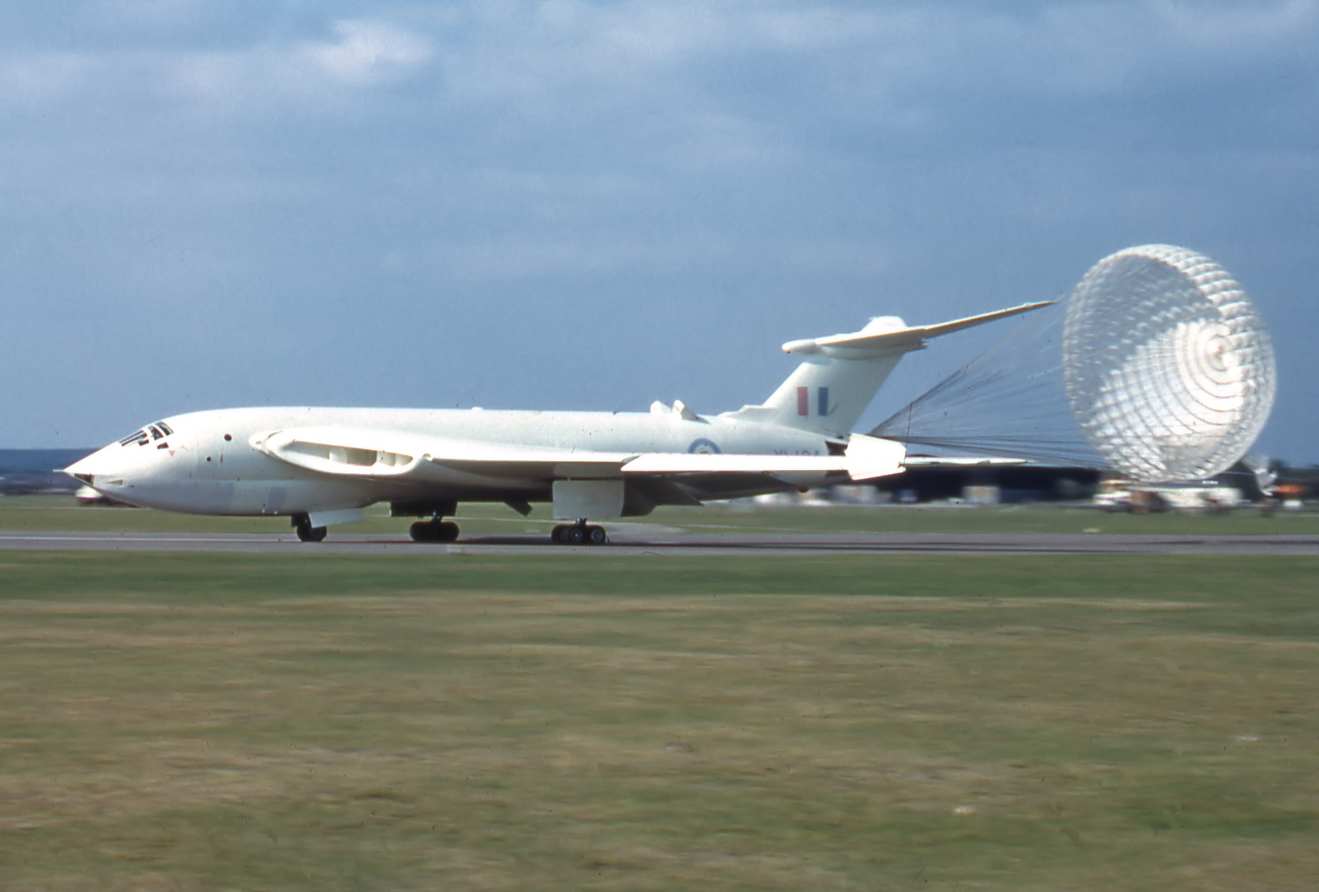 Victor V Bomber in 1961. Location unknown but most probably Farnborough, England. Taken by Adrian Pingstone and released to the public domain.